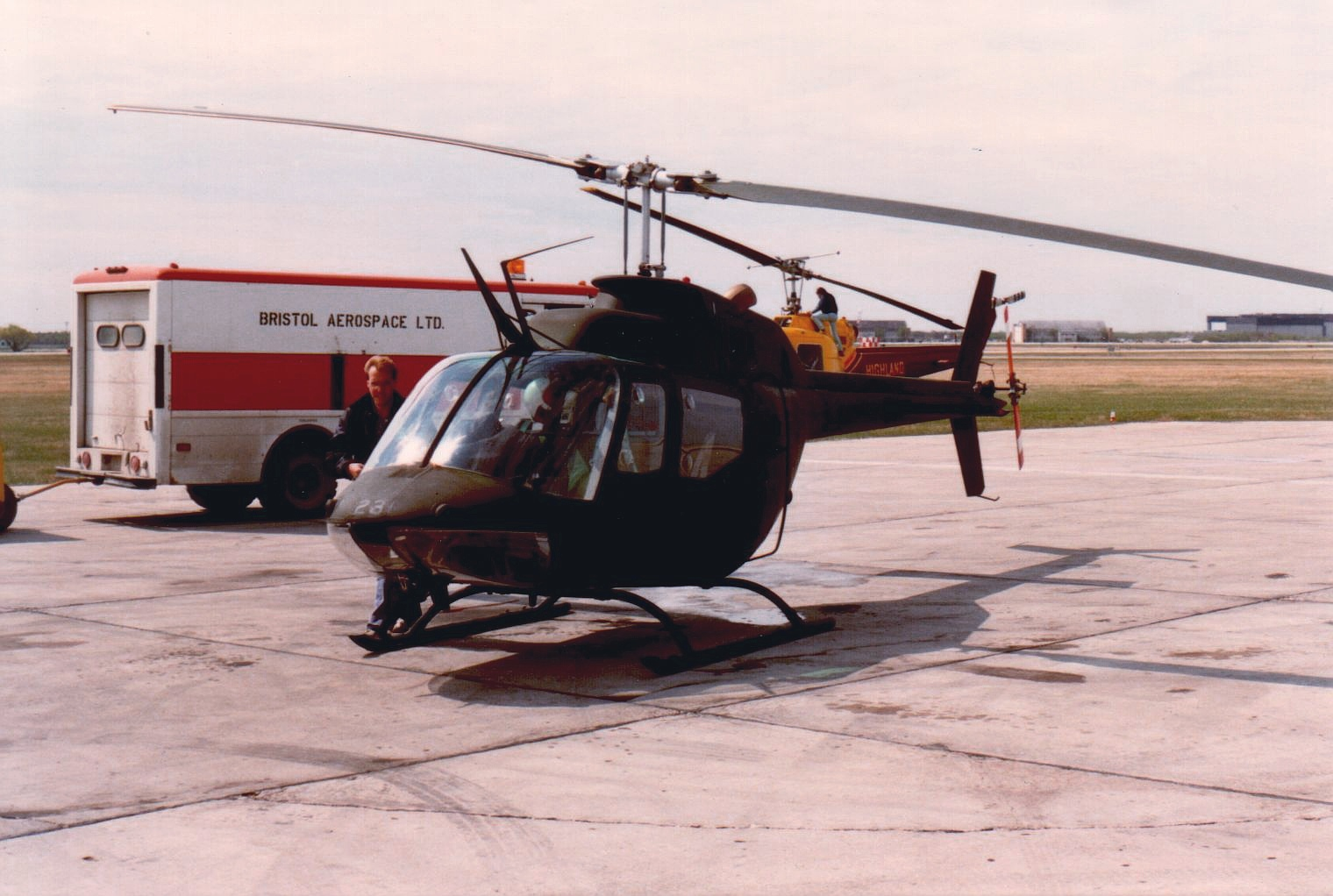 Canadian Forces Bell CH-136 Kiowa serial number 136231 undergoing flight testing at Bristol Aerospace in April 1987. This was the last Kiowa that was overhauled by the company under the Depot Level Inspection & Repair contact.